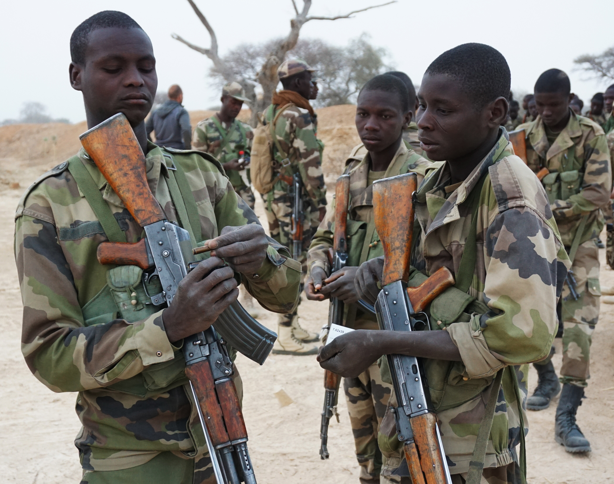 Nigerien soldiers prepare their magazines for a dismounted patrol during Exercise Flintlock 2017 in Diffa, Niger, March 11, 2017. Flintlock brings together forces who share the common goal of peace and stability in North and West Africa. (U.S. Army photo by Spc. Zayid Ballesteros) Unit: U.S. Africa Command DVIDS Tags: Canada; United States; Australia; Belgium; 3rd Special Forces Group; SOCAFRICA; Niger; SOCAF; Special Operations Command Africa; Diffa; Flintlock17; Flintlock 2017; SOCFWD-NWA